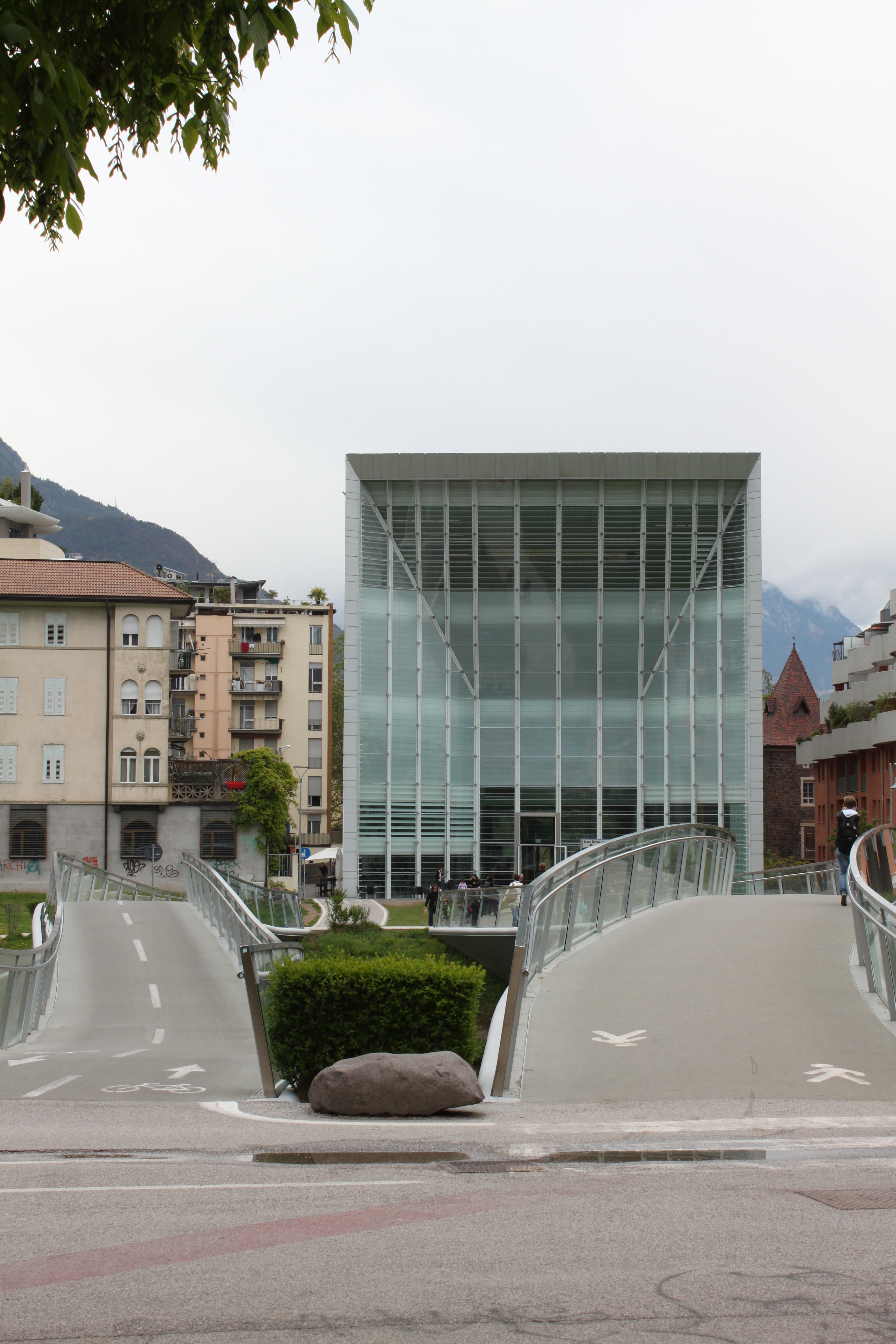 Museum of Modern Art Bozen Bolzano South Tyrol (west view) - Museion